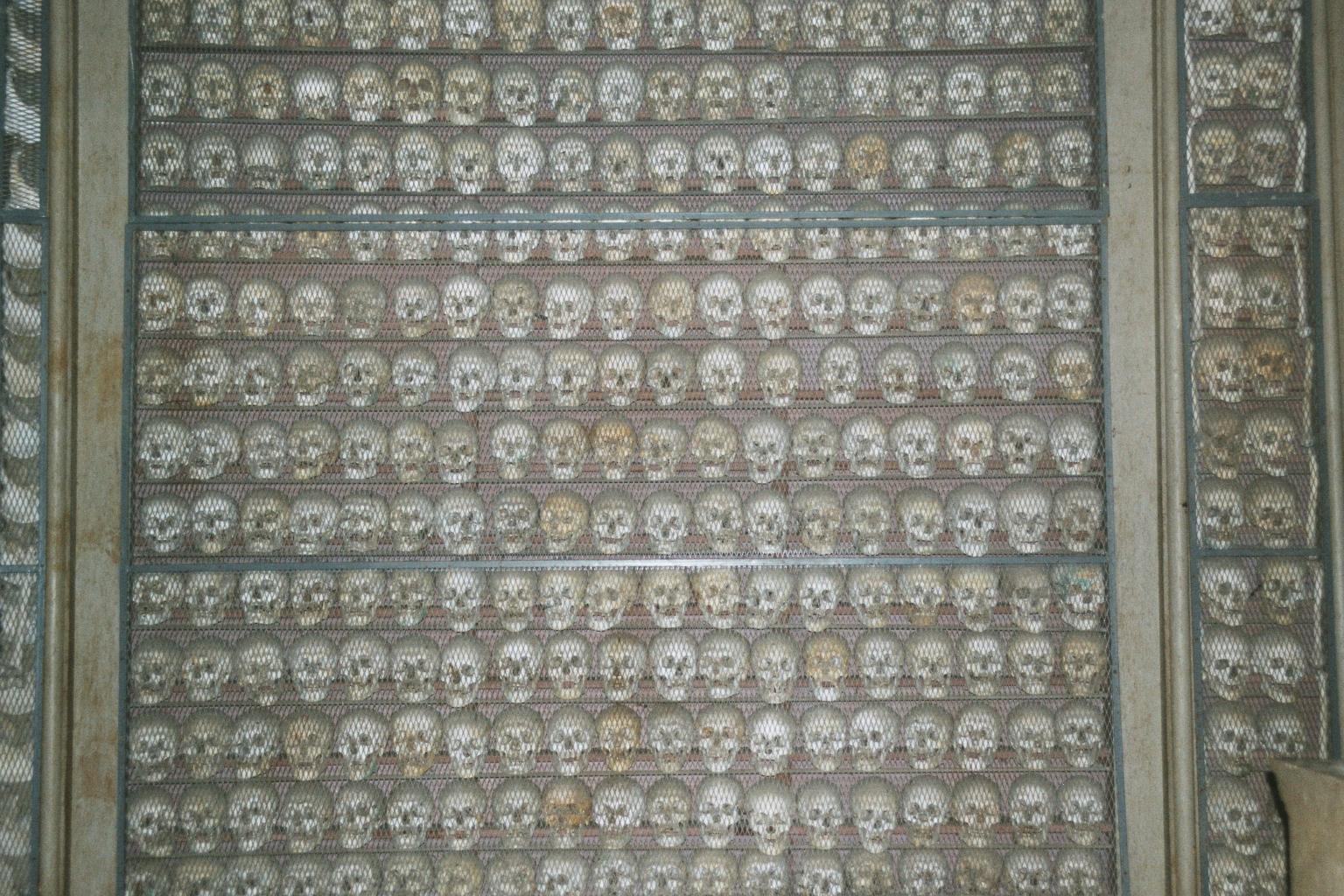 Ossario in Solferino, inside, September 2004